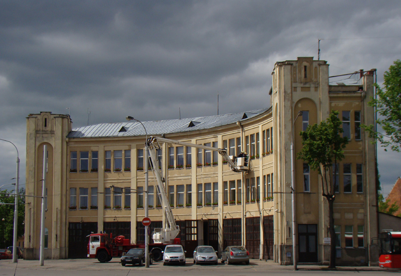 Central fire station of Kaunas